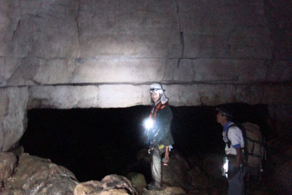 a monolithic mega wall, you can see the one that leads to the South, passing to the main Hall of the Cave. In the photo are Luis Tunki and Yoris Jarzynski in the Polish expedition 2012.